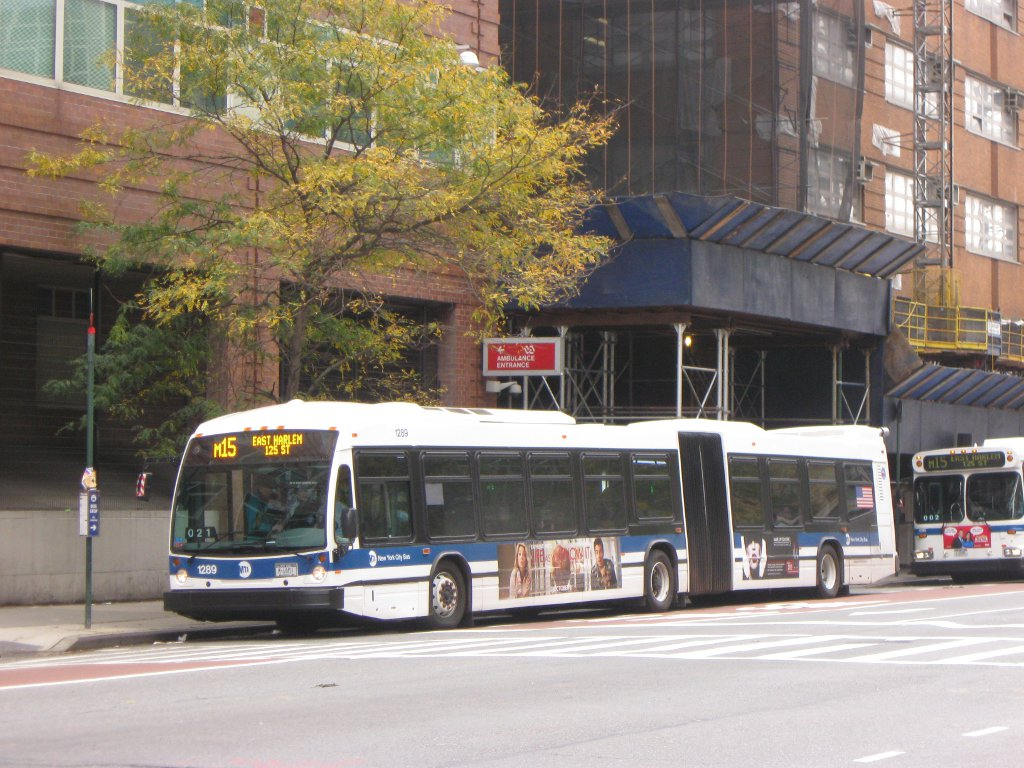 MTA New York City Bus #1289, one of 10 Nova Bus LFS articulated coaches not assigned to Select Bus Service, picks up customers on 1 Avenue near the VA Hospital, bound uptown.